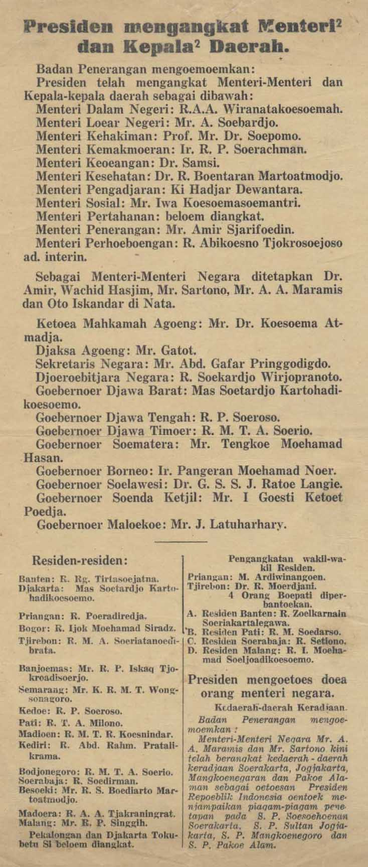 Announcement of appointments of ministers and provincial governors by President Sukarno.